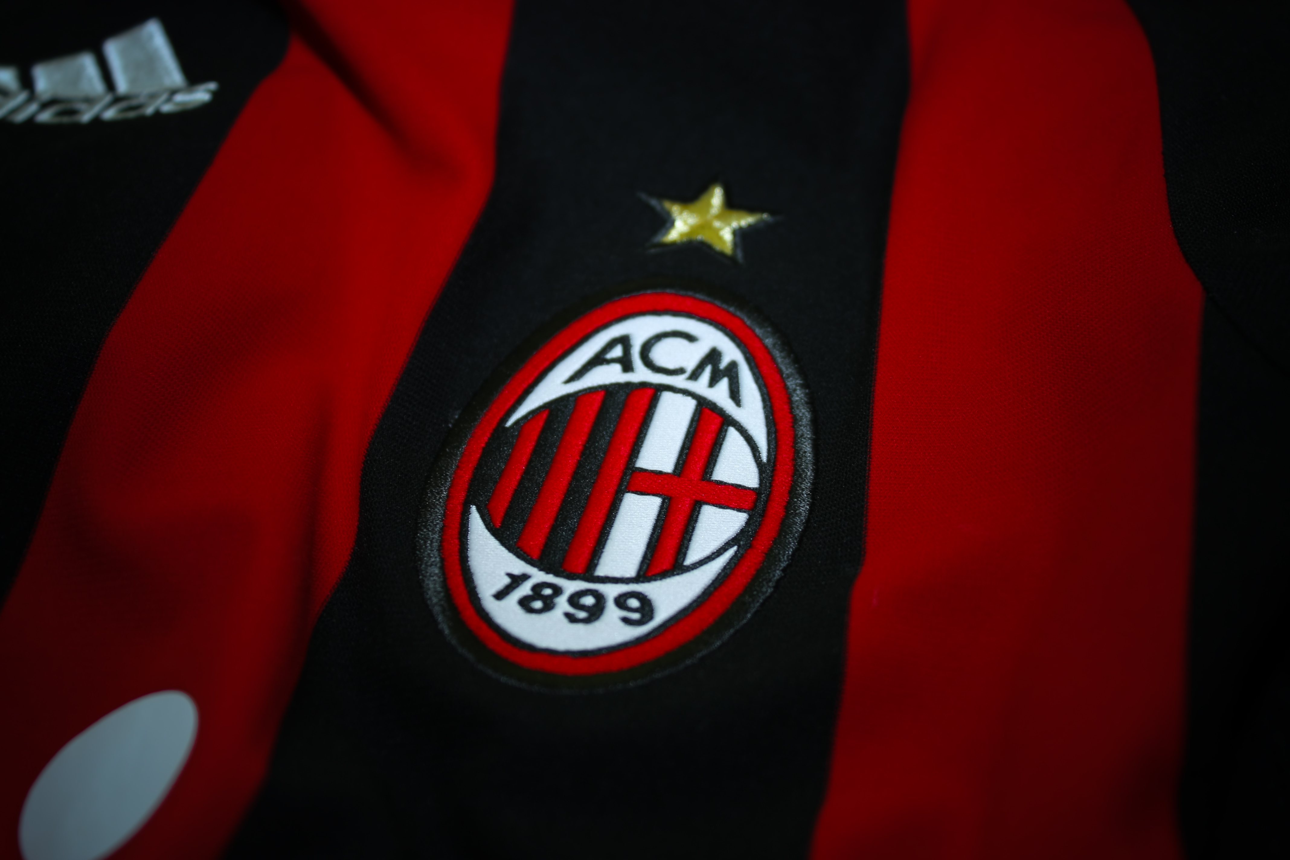 A.C. Milan Jersey 2008/09